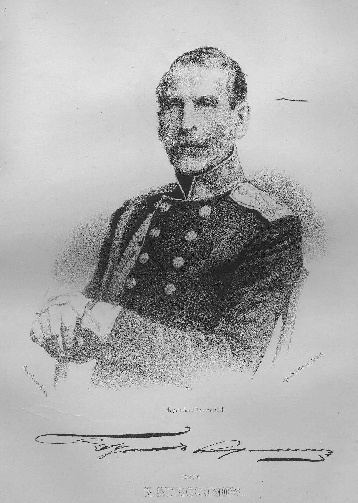 count Sergei Grigoriyevich Stroganov